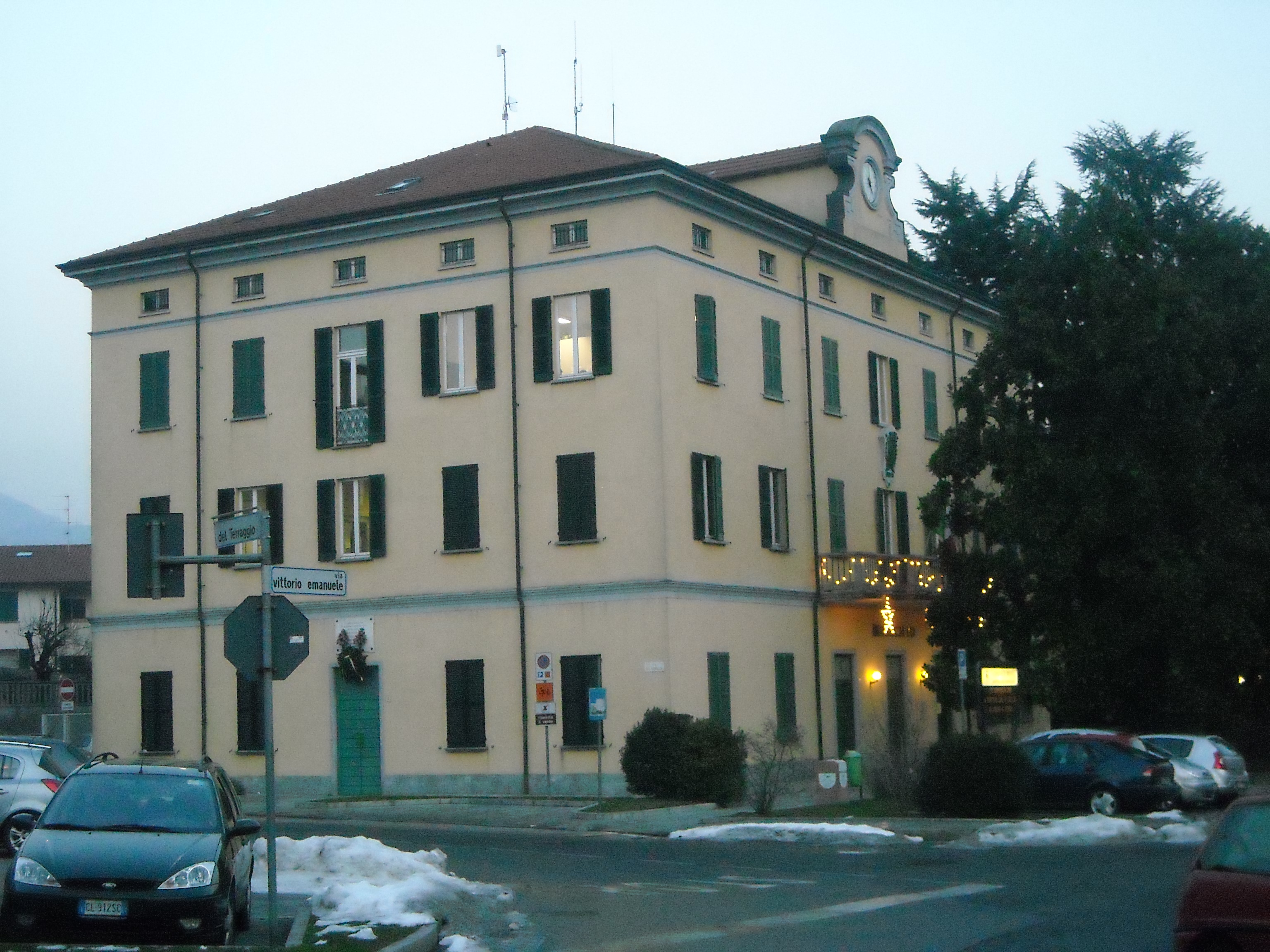 Town hall, Brivio, Lecco, Italy